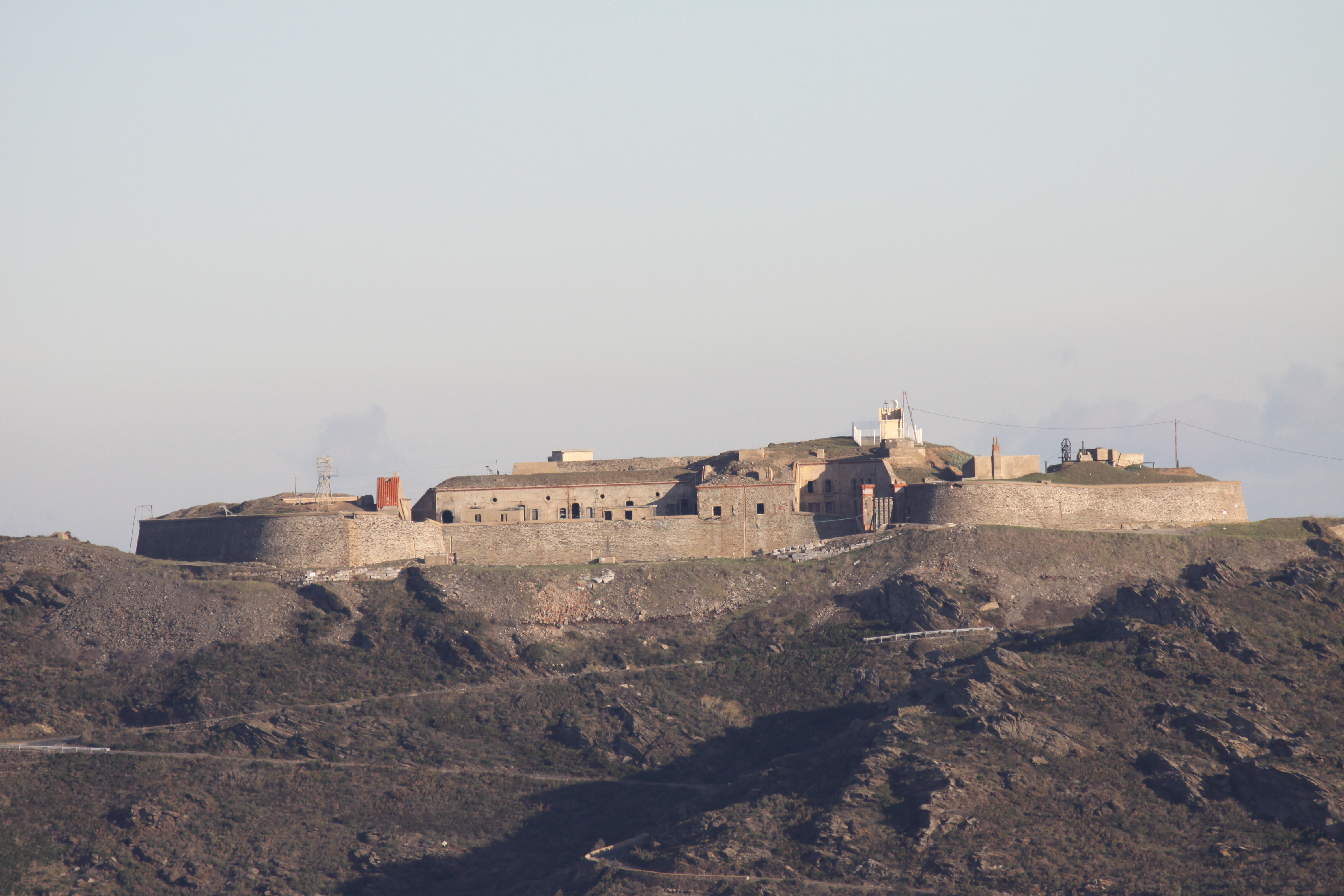 Fort Béar dominating the Mediterranean seashore near Port-Vendres, Pyrénées-Orientales, France. The fort Béar, a military building dating from the nineteenth century, is now used (in 2015) for military exercise (elite troops training mainly in urban warfare) by the Centre national d'entraînement commando (CNEC) of the French Army. The closest residence for the CNEC is in the neighbouring town of Collioure (in the fort Miradou) and its hedquarters are located in the Vauban citadel of Mont-Louis (altitude 1,600 m in the Eastern Pyrenees).